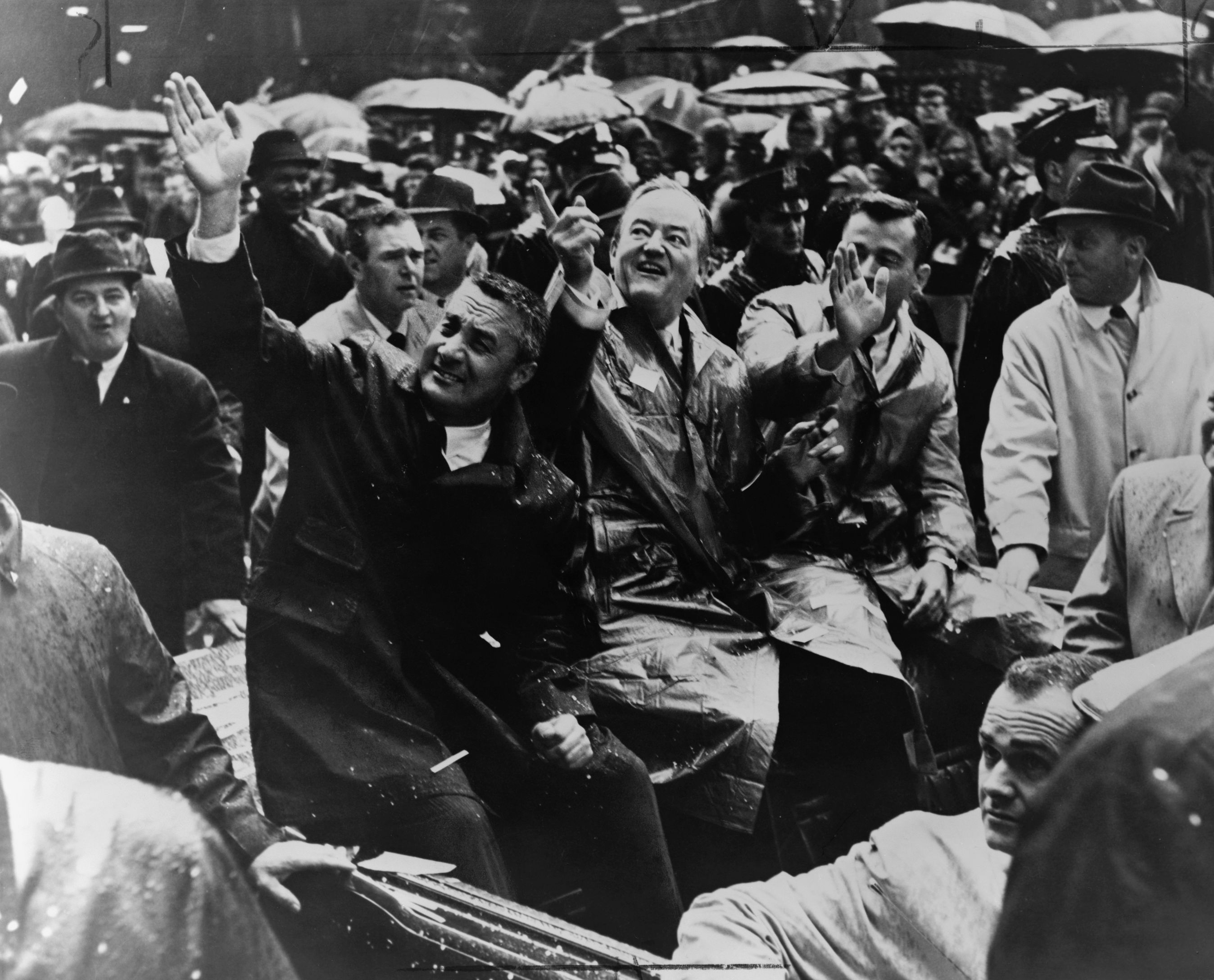 Astronauts Virgil Grissom (left), John Young (right), and Vice President Humphrey (center) riding in car, waving to crowd, during ticker tape parade, Broadway, New York City / World Telegram & Sun photo by John Bottega.